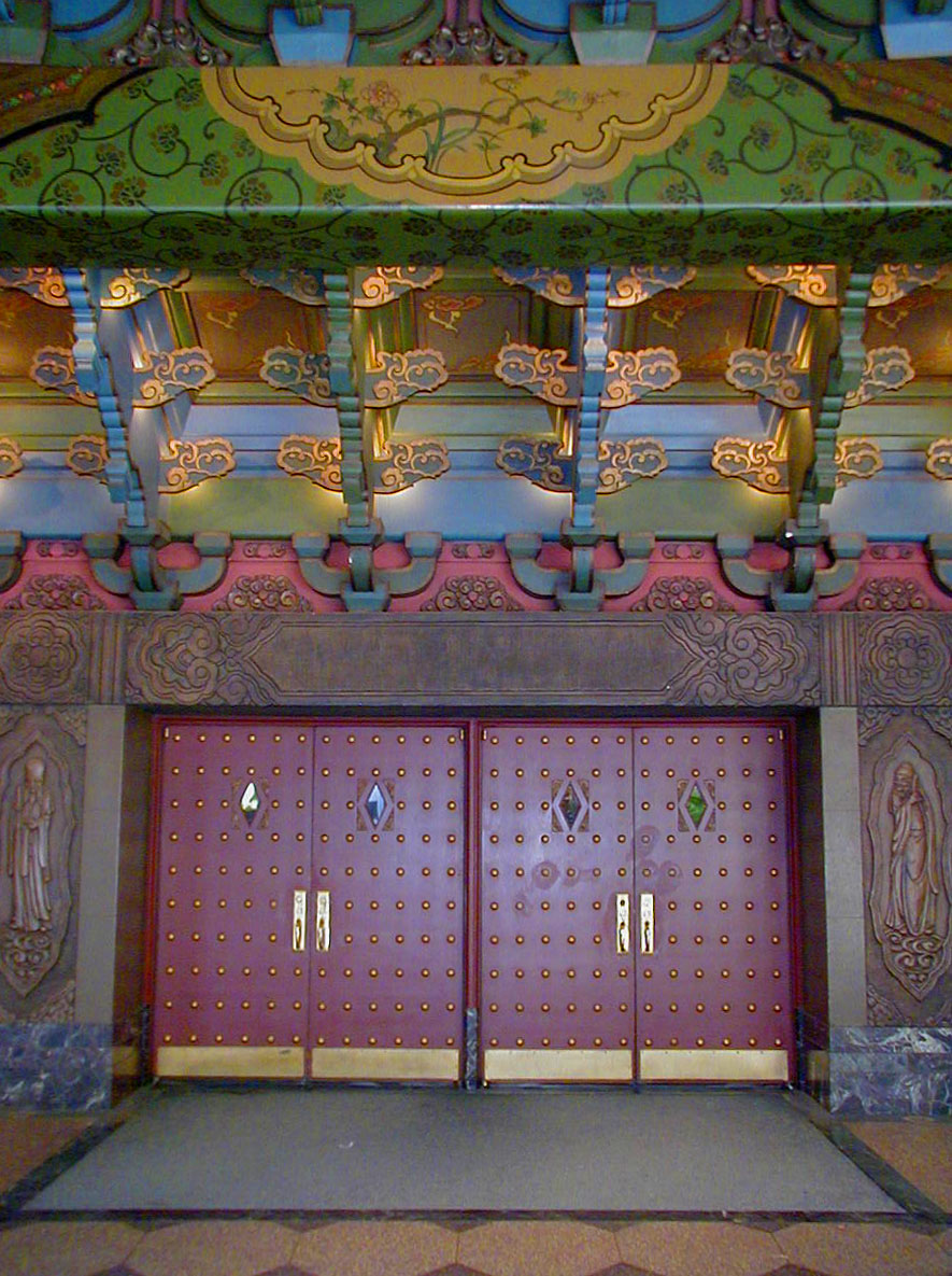 Doors to the 5th Avenue Theatre in Seattle, Washington with decorative ceiling above.